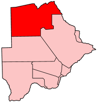 Map of Botswana showing North-West district.